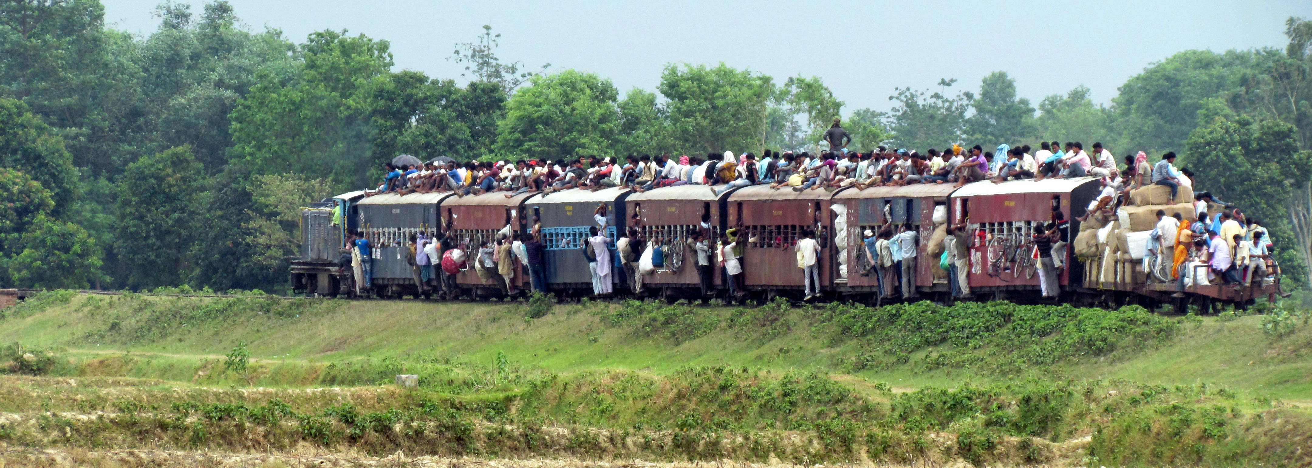 Janakpur - Jainagar railway. The only railway in Nepal